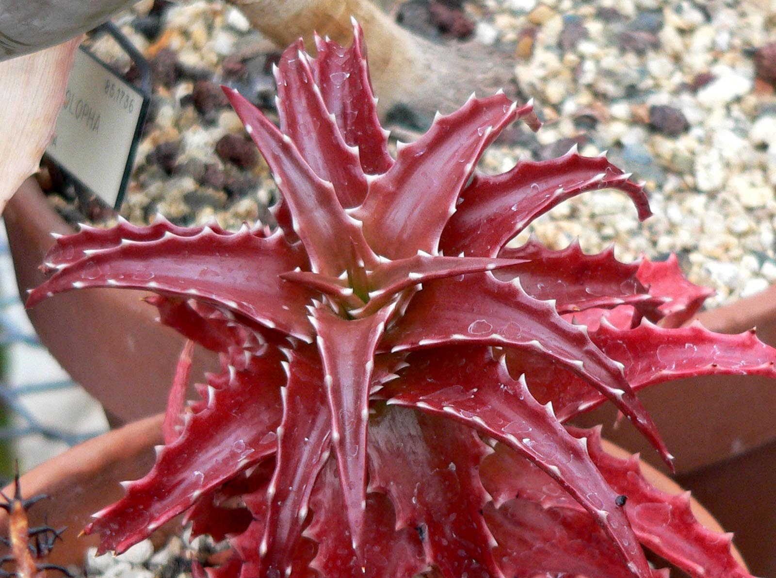 Photo of Aloe dorotheae at the University of California Botanical Garden